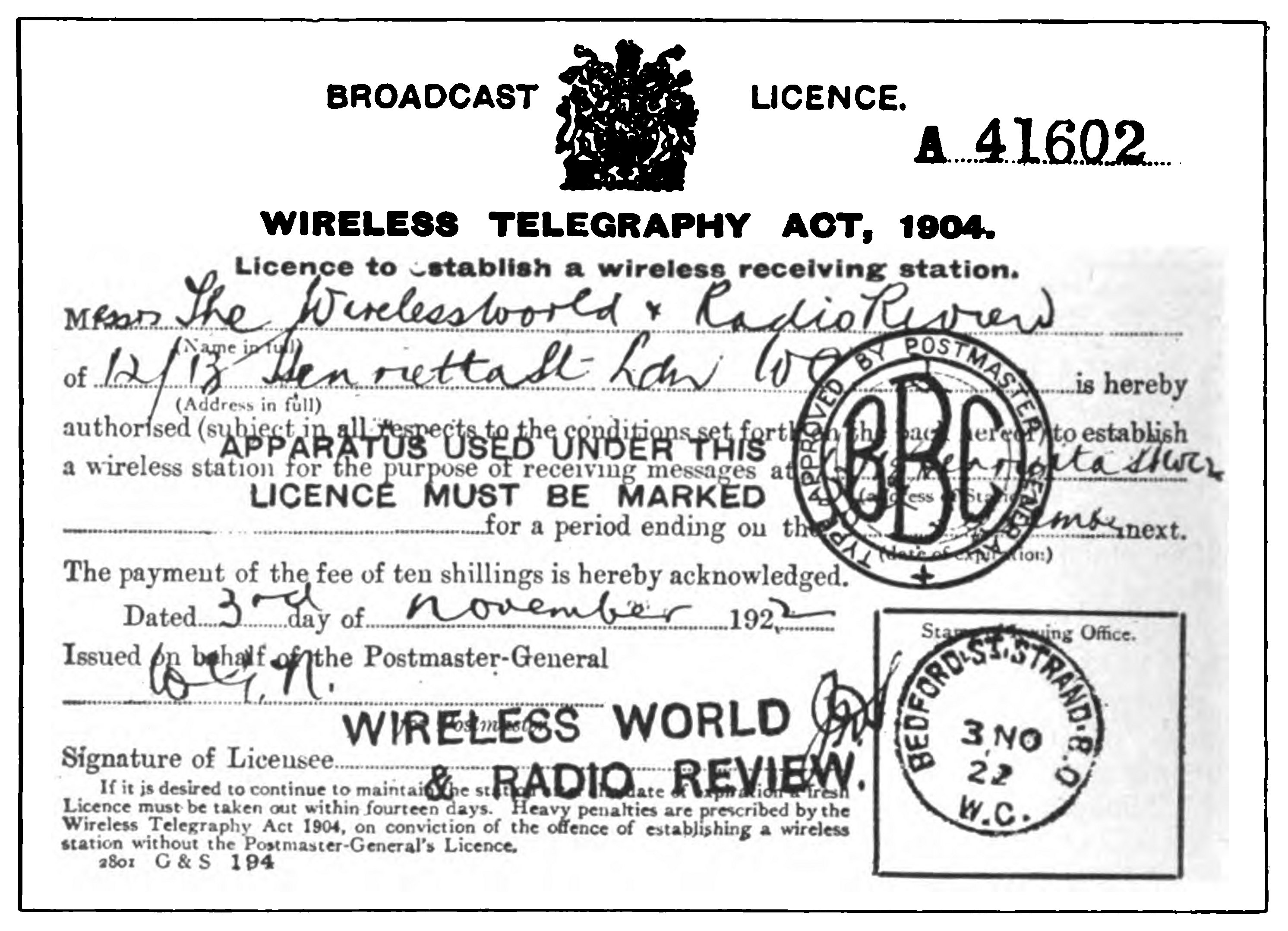 A license for a radio receiver granted by the British Post Office on November 3, 1922. Broadcasting in Britain began on October 18, 1922 provided by a monopoly consortium of private radio companies called the British Broadcasting Company under the direction of the Post Office. The cost was borne not, as in the US by on-air commercial advertisements, but by an annual license on radio receivers, shown here, which cost 10 shillings. This one was purchased as an example by the Wireless World and Radio Review, a British radio magazine. The license was published in US magazines to the interest of US radio listeners, who had never had to license receivers. Only receivers with a BBC stamp were legal to sell in Britain. Licensing continued after broadcasting was nationalized in 1926 under the British Broadcasting Corporation. The words BROADCAST LICENSE at top are misleading, the license only allowed reception, as indicated by the wording lower down, not transmission. Caption:It costs ten shillings, or about $2.35, and it's just a license to use a receiving set for a year in England, with strict rules and regulations to be observed. Part of the fee goes to support the broadcasting that the licensee hears.